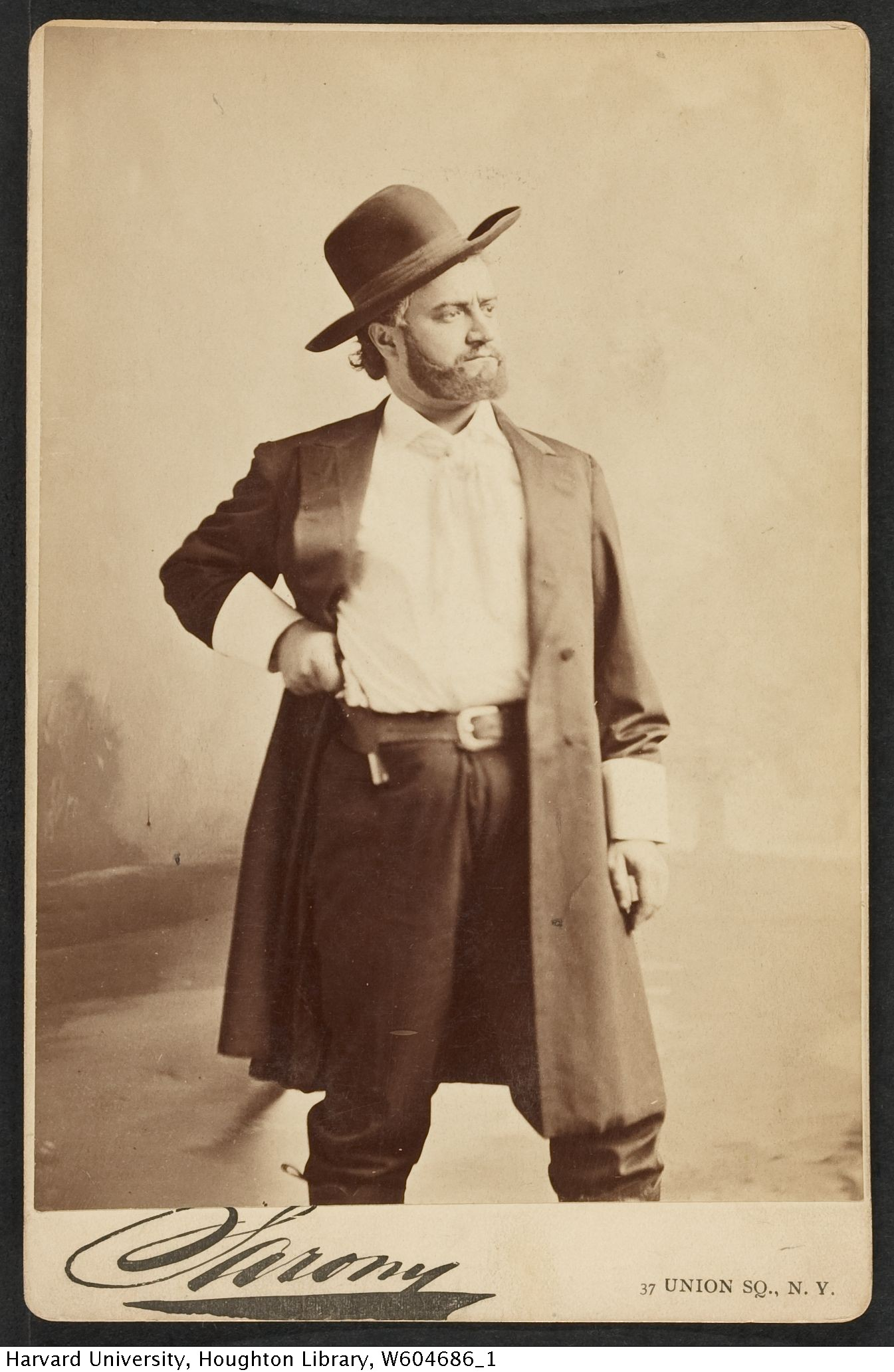 Cabinet card image of American actor Louis Aldrich (1843-1901), in costume and wearing a false beard. TCS 1.244, Harvard Theatre Collection, Harvard University